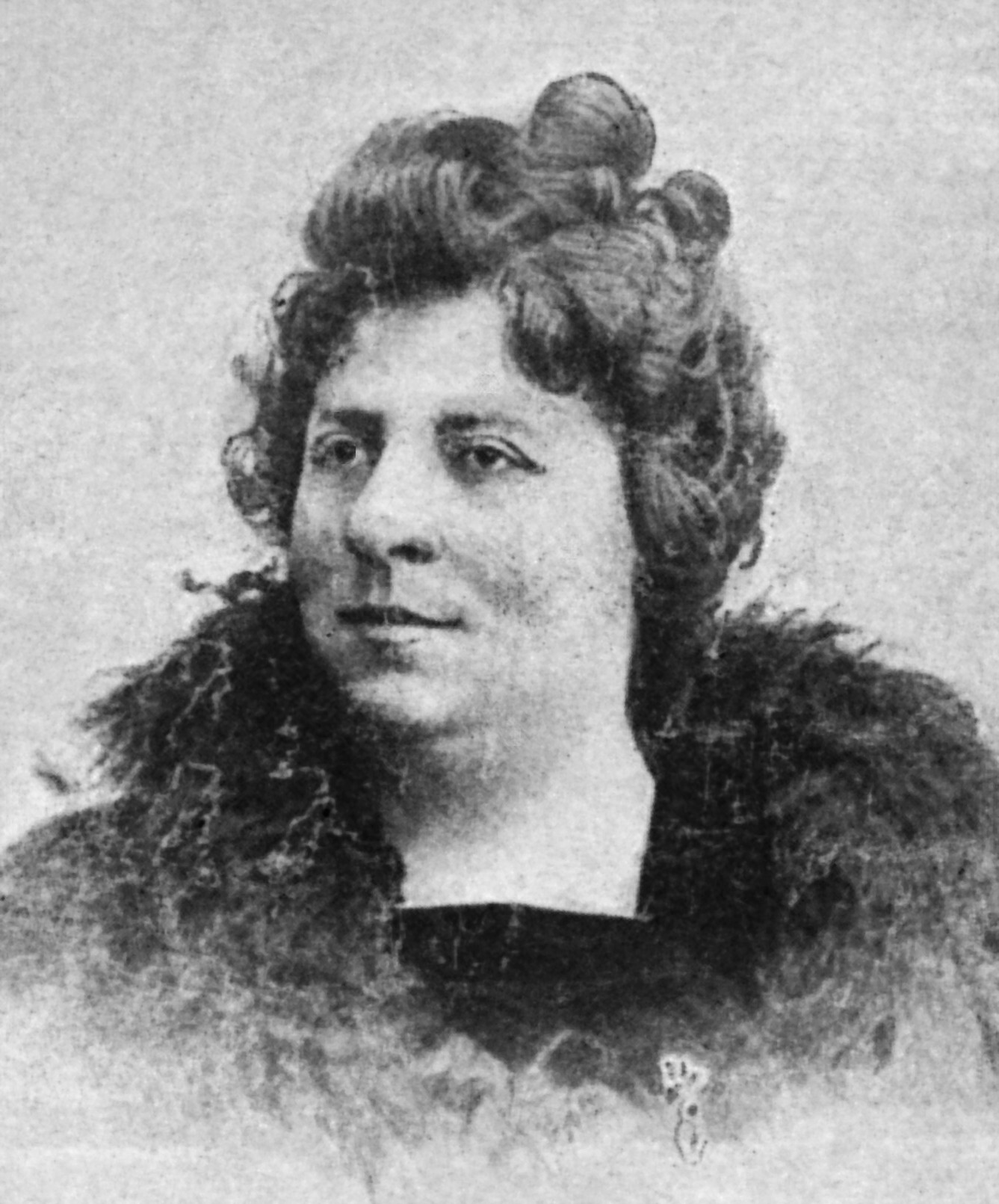 Image of Hedwige Chrétien on a concert programme.